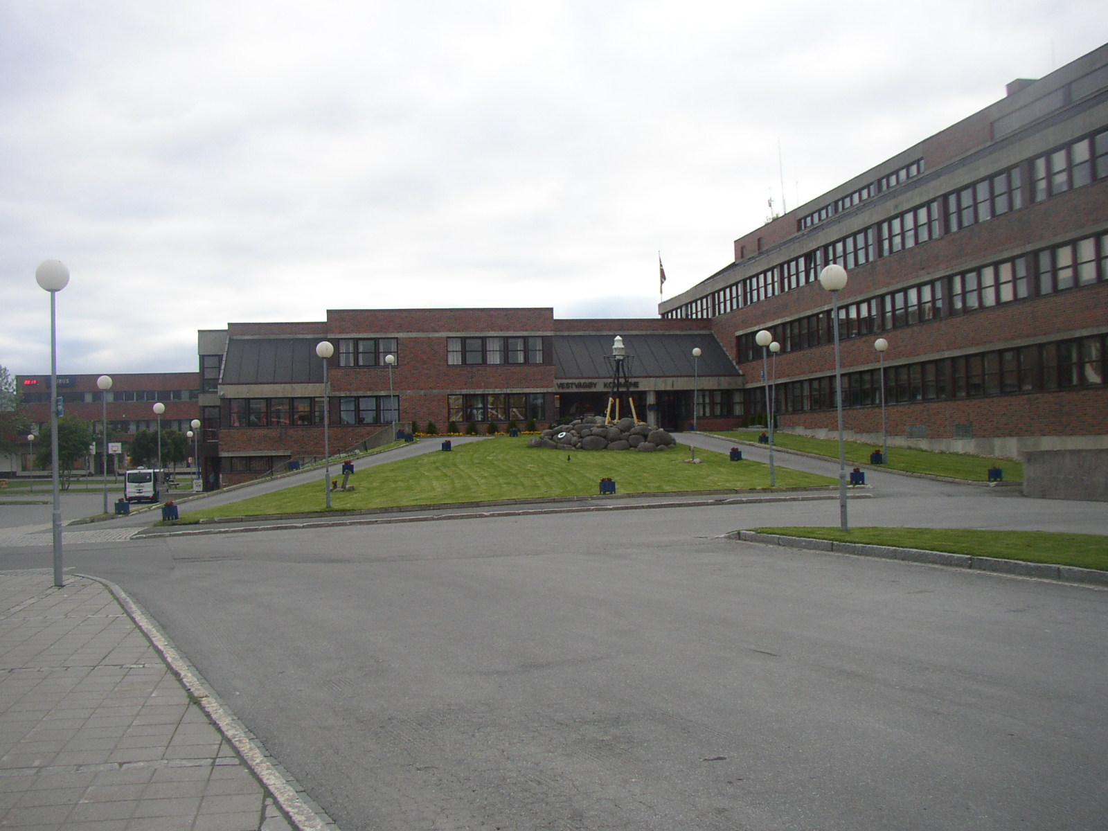 City hall in Leknes for the municipality Vestvågøy on Lofoten.